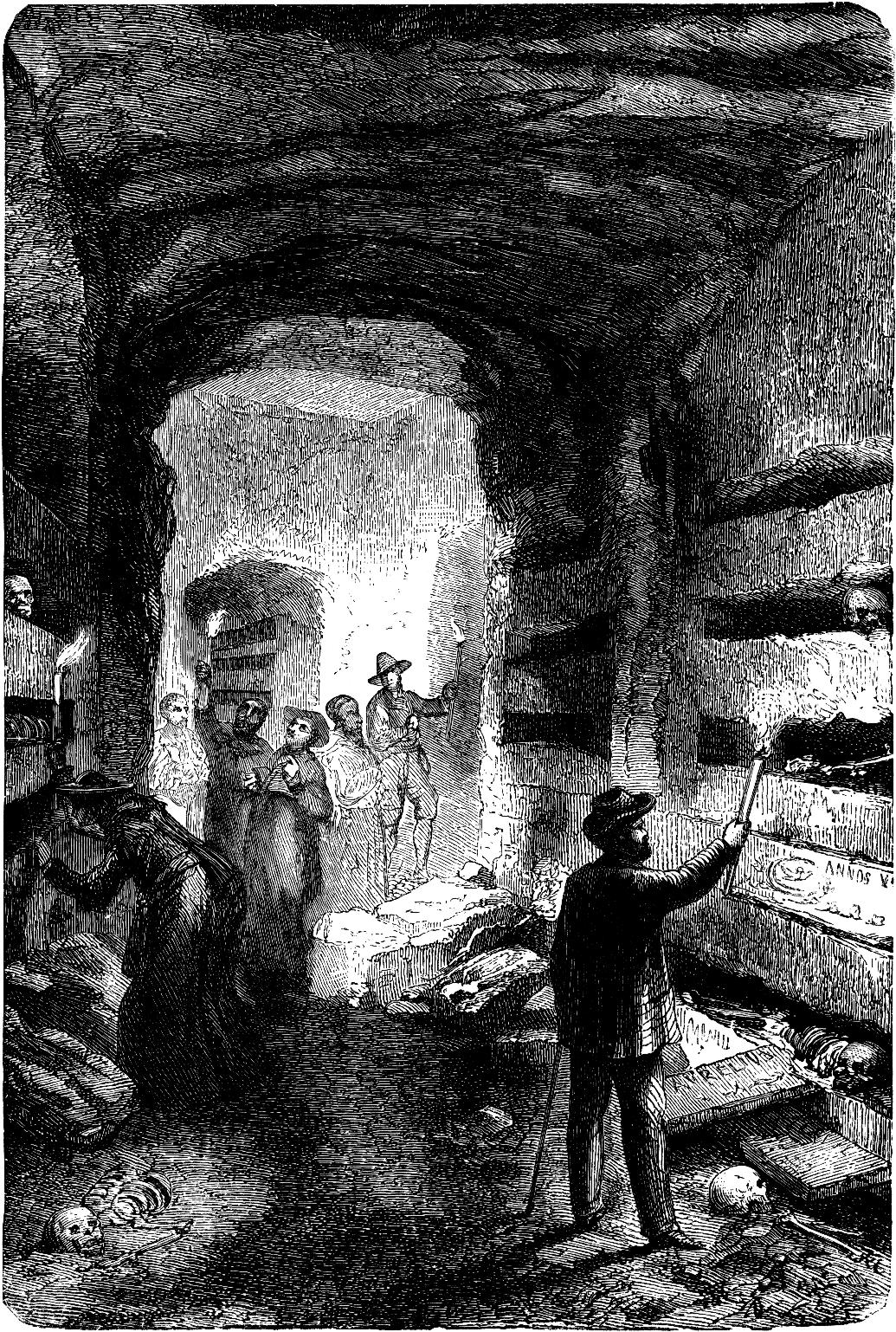 The Catacombs of Naples The Catacombs of Naples are of great interest even after those of Rome; they are said to extend for several miles underground; and they consist of broad arched passages hollowed out of the rock, containing on either side niches which once contained the bodies of the dead. They were without doubt [says Rodwell] excavated by the early Christians; many Christians emblems are painted upon the walls, sometimes in a very rude manner. In some places the original fresco has been covered with a coating of plaster, and a second fresco has been painted over the first, occasionally even a third. (p. 141) F.: “South by East: Notes of Travel in Southern Europe” (1877)[1]